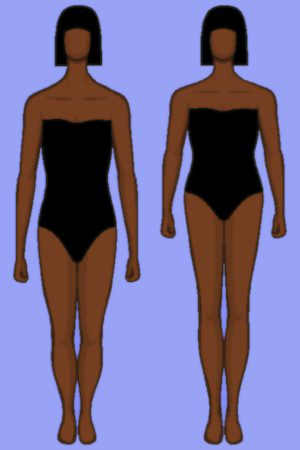 This drawing of two female figures is a remake of the drawing of the leg-to-body ratio (LBR) extremes used in the experiment by Swami et al. (2006) to find out what LBR is considered the most attractive for men and women. The female figure with the lowest LBR and shortest legs who is depicted on the viewer's left had the lowest average attractiveness ratings whereas the female figure with the highest LBR and longest legs who is depicted on the viewer's right had the highest average attractiveness ratings from both the British men and women who rated the images for the experiment. The citation for the paper is below. Swami, V et al. (2006). The leg-to-body ratio as a human aesthetic criterion. Body Image, 3(4), 317-323.